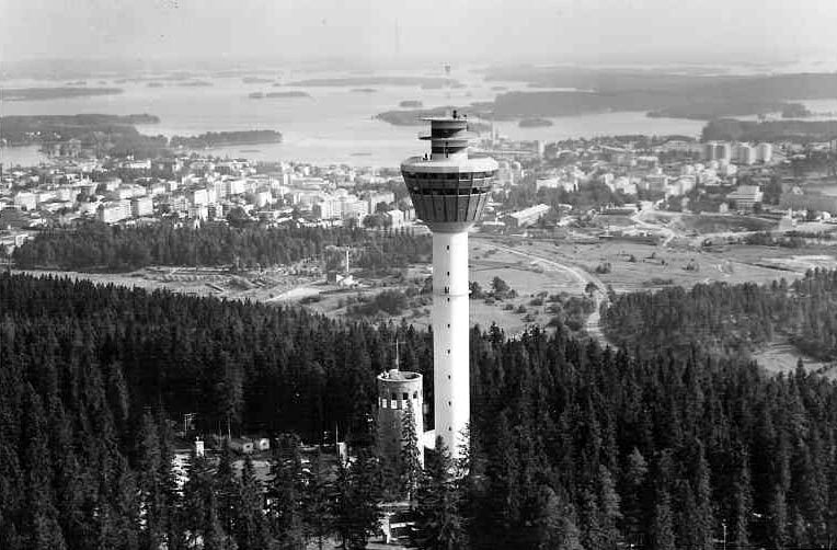 Old and new Puijo tower in Kuopio, Finland, in 1963